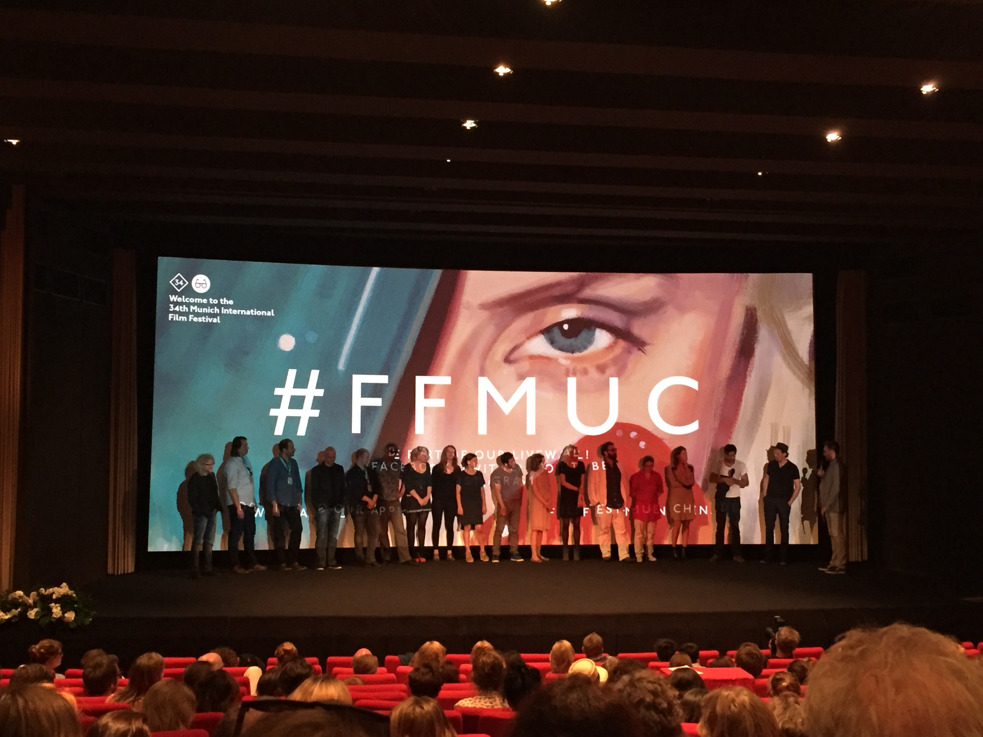 World premiere of "Die Hände meiner Mutter" ("Hands of a Mother") at Munich Film Festival 2016